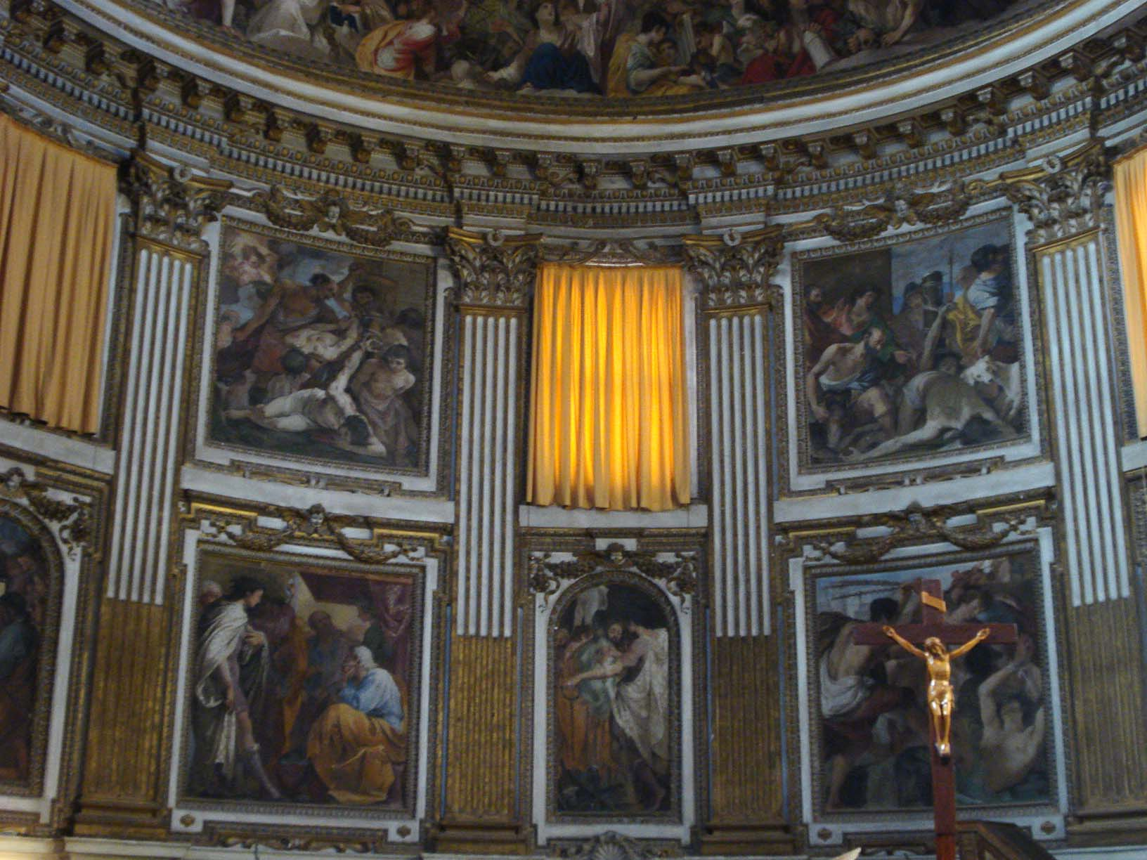 Martyrdom of Four Crowned Saints - fresco in the apse